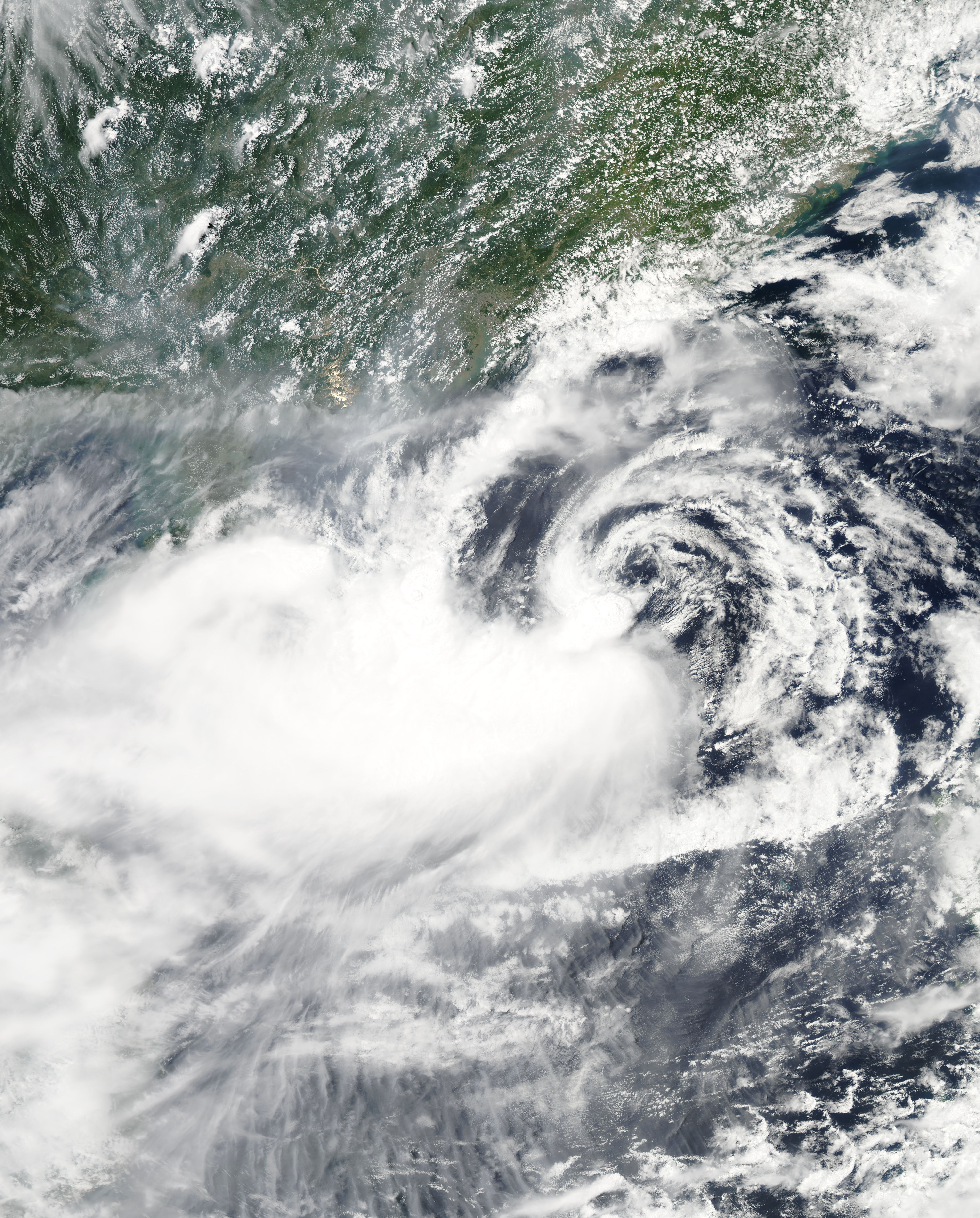 Tropical Storm Goni of 2009 on August 5.